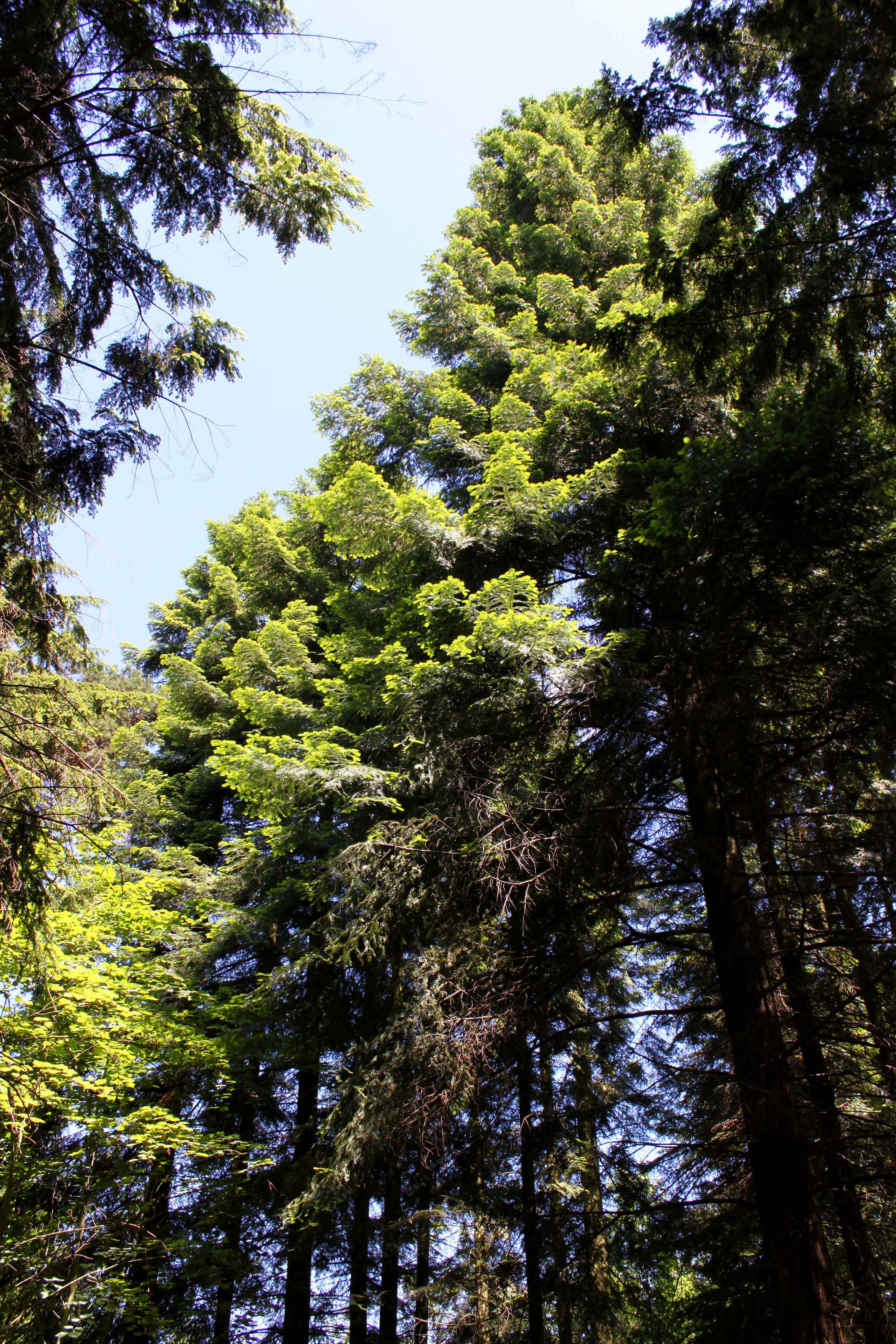 Grand Fir (Abies grandis experimental forest in Rogów Arboretum, Poland